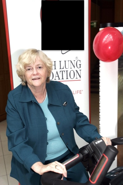 Own image taken.